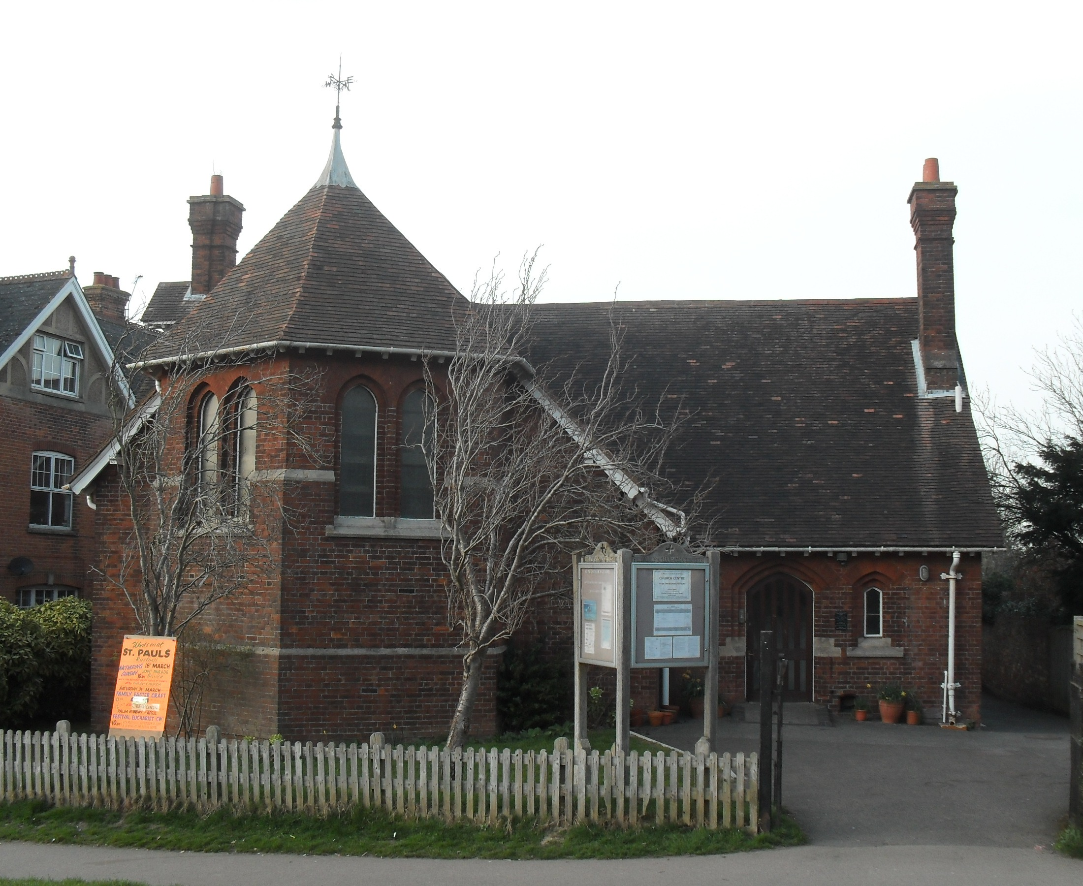 St Paul's Church Centre, Rusthall High Street, Rusthall, Kent, seen from the south. Built as a mission church and parish room for St Paul's parish church in Rusthall.